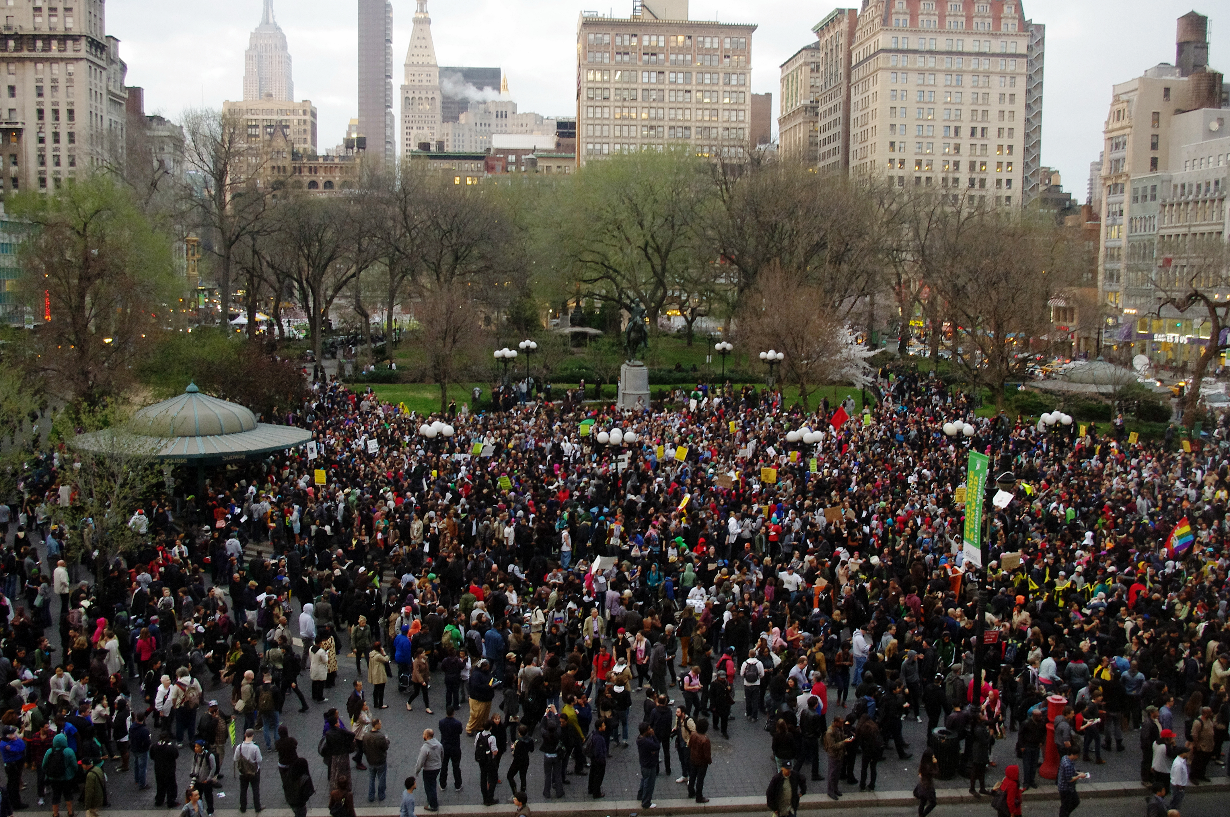 Photos from the Million Hoodies Union Square protest against Trayvon Martin's shooting death in Sanford, Florida.